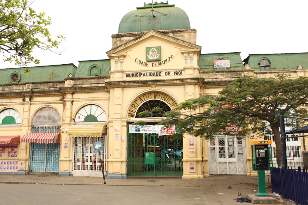 Central Municipal Market of Maputo, Mozambique